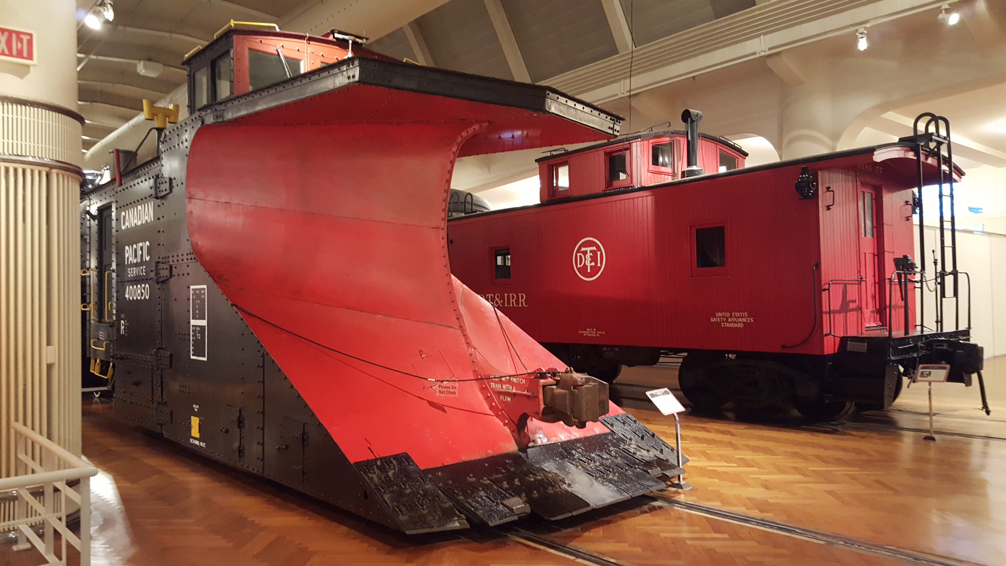 railway snowplow, Henry Ford Museum, built in 1923